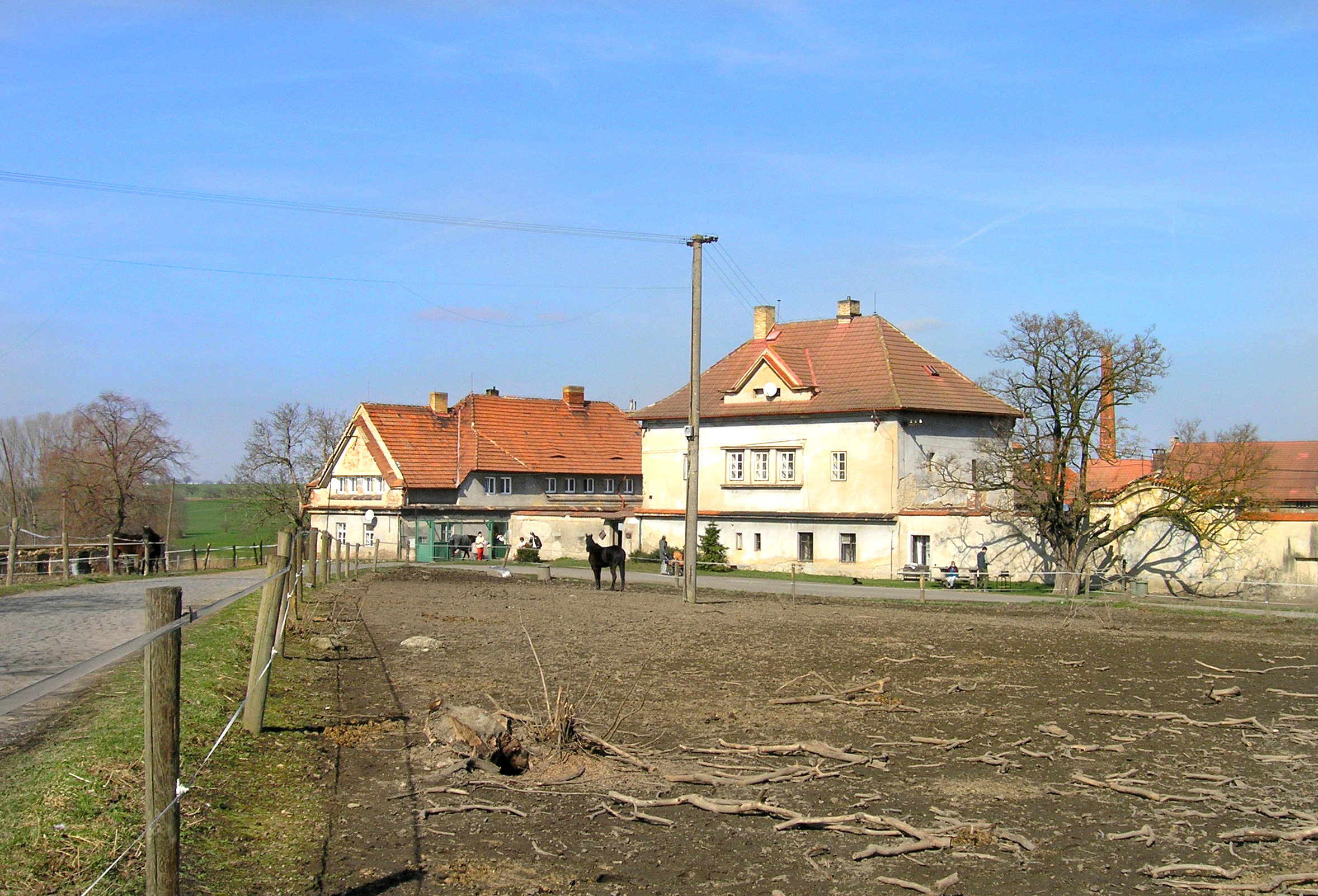 Farm at Netluky near Uhříněves, Prague